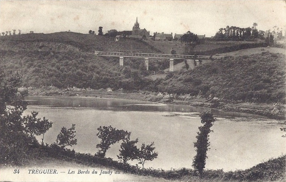 Old postcard printed by LL edition, #34: "Tréguier - The Jaudy river's shores at Minihy"